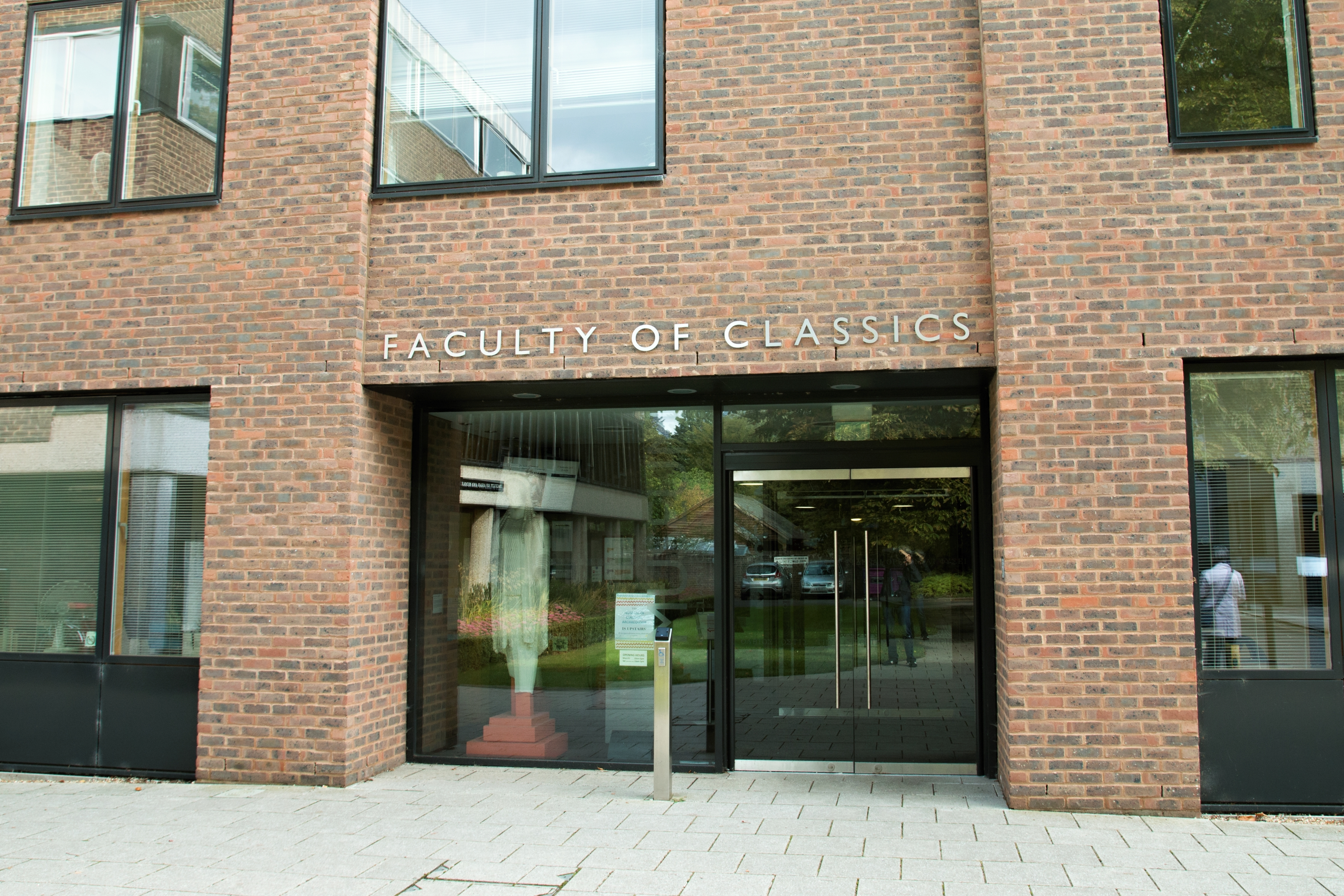 Cambridge Museum of Classical Archaeology, entrance to the building.